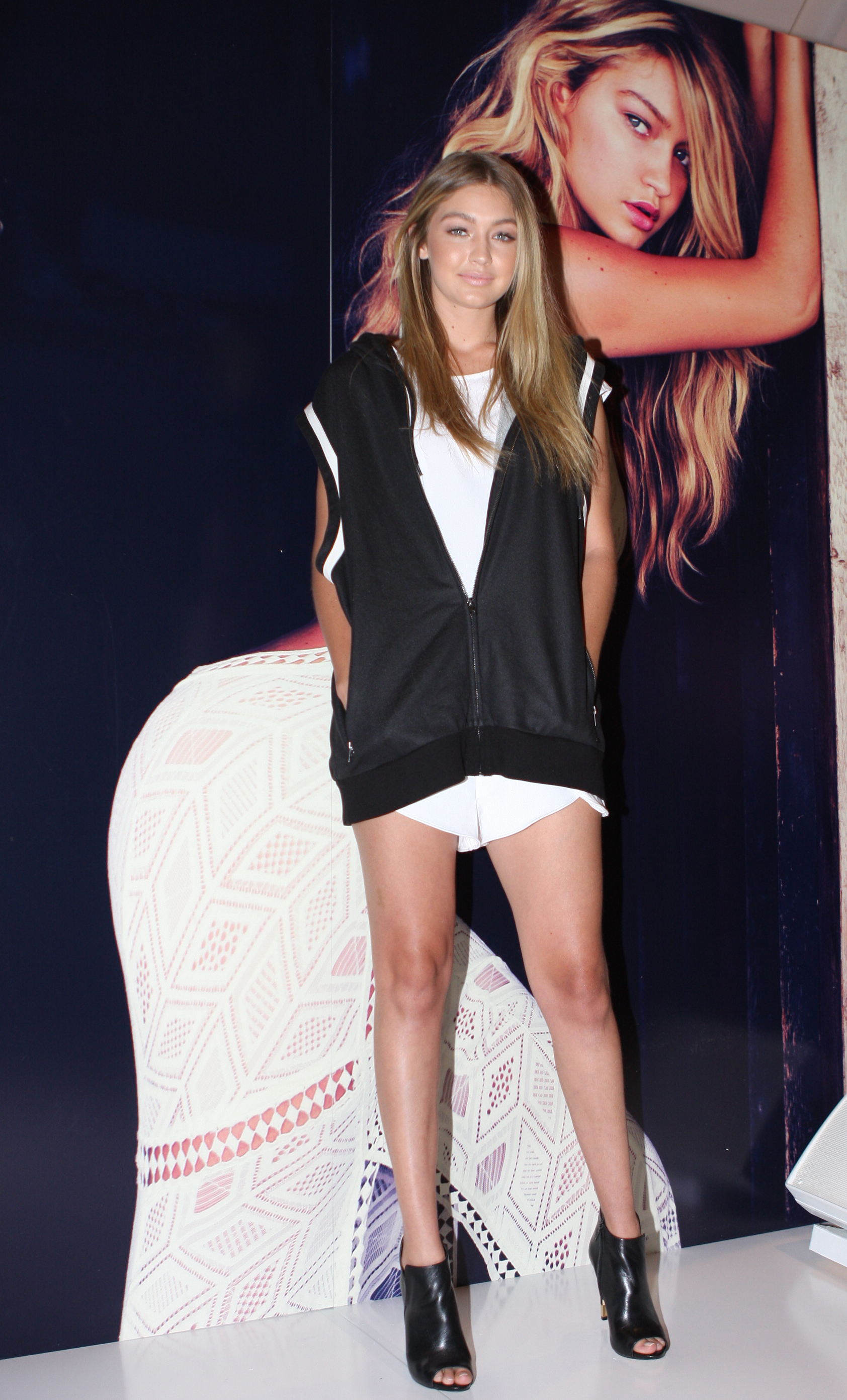 Gigi Hadid in Sydney to celebrate the launch of the Guess Spring Launch 2015 Campaign